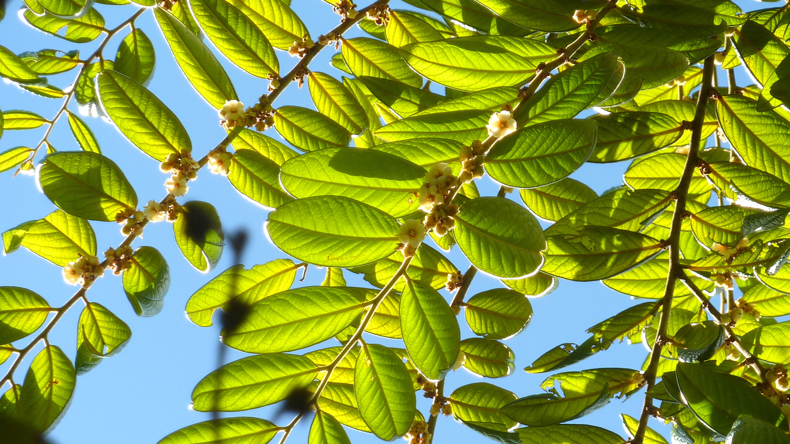 Diospyros gaultheriifolia Mart. ex Miq.